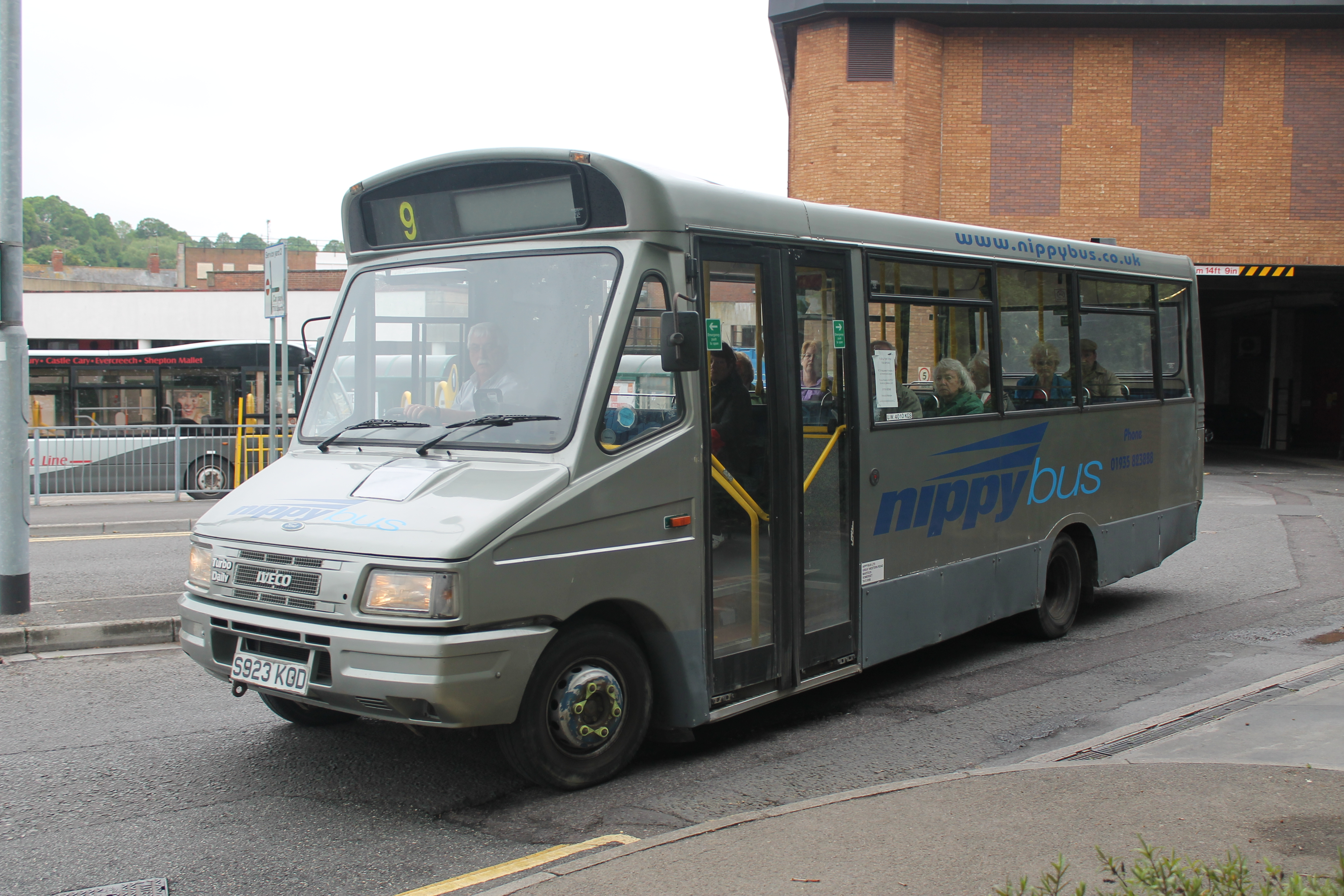 God knows how this monster has survived for such a long time. I like the company Nippy Bus as it has some very handy services around Somerset, but I don't know why this bus was operating the N9 route to Martock over their many Optare Solos. S923KOD must be now quite a rare machine: an Iveco 59 - 12 Turbo Daily with Marshall bodywork. Does anyone know why there's a Ford badge on the bonnet? It formerly operated for Dealtop (Dartline) in Devon on park and ride services, but this was over ten years ago when this bus was relatively new. Picture taken at Yeovil Bus Station operating the 9 Nippybus service on 12/6/2013